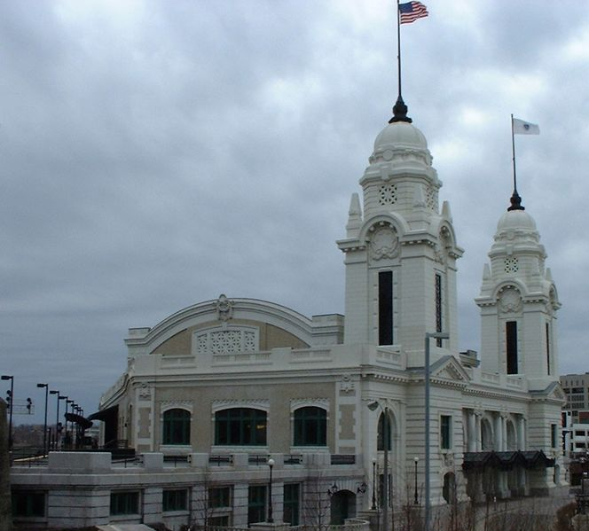 Union Station in Worcester, Massachusetts